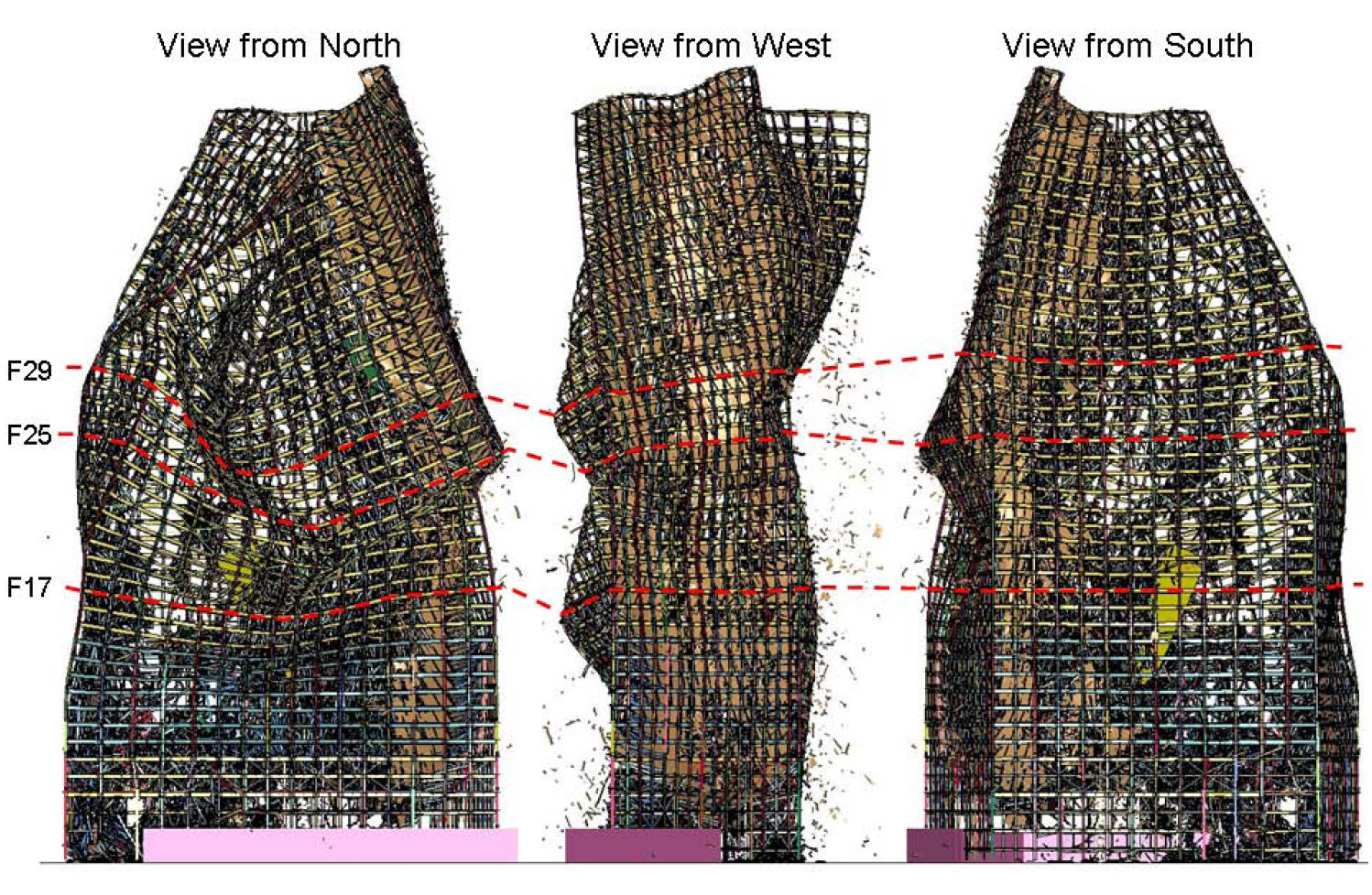 Illustration of the exterior buckling of the 7 WTC building after global collapse initiation.